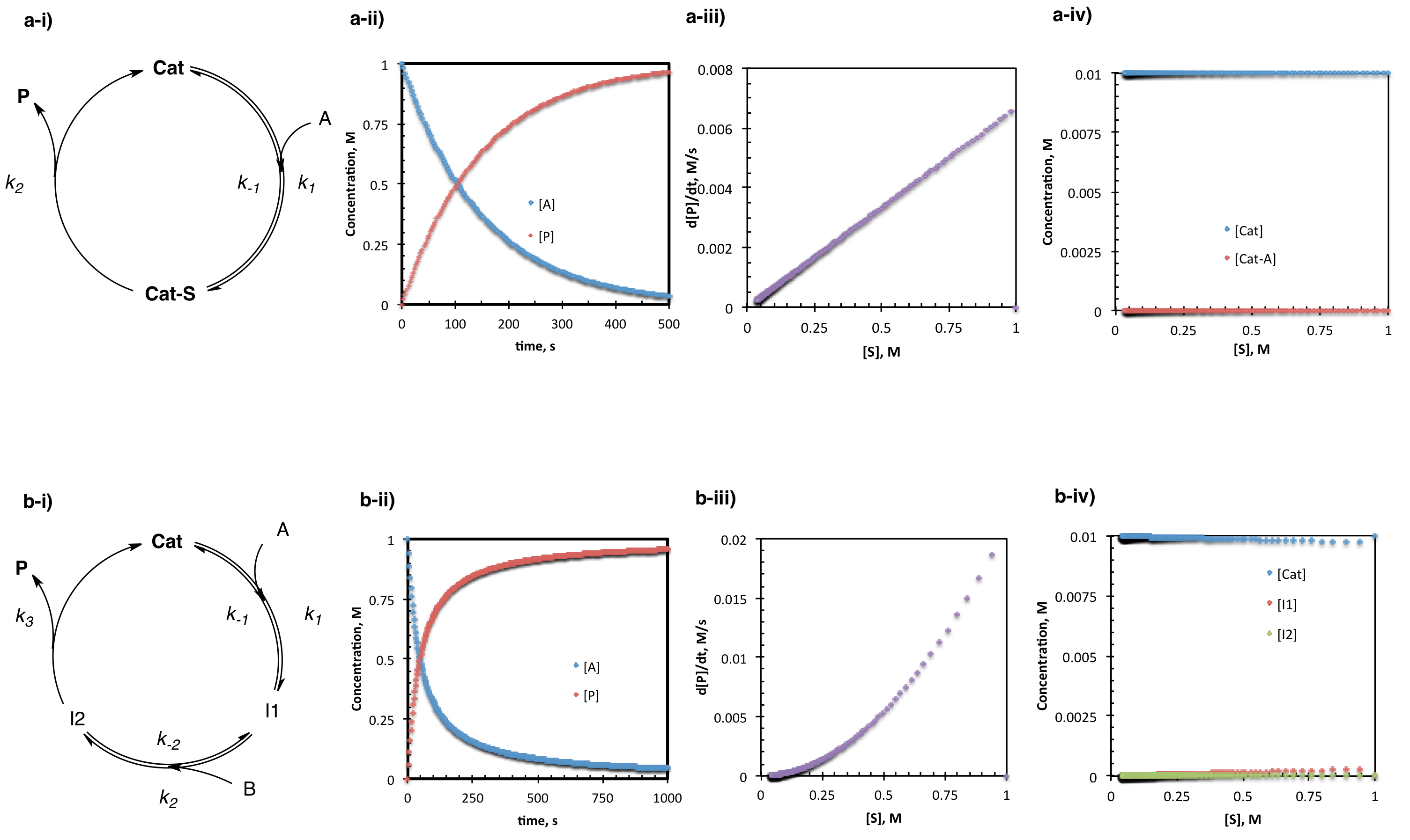 Two examples of catalytic kinetics displaying steady-state behavior. For each case, i) describes the catalytic cycle with relevant rate constants and concentrations, ii) displays the concentration of product and reactant over the course of the reaction, iii) describes the rate of the reaction as substrate is consumed from right to left, and iv) describes the catalyst resting state as substrate is consumed from right to left. The arbitrary rate constants used to describe these scenarios are as follows for a) k1= 1 (1/(M*s)), k-1= 500 (1/s), and k2= 1000 (1/s) and b) k1= 75 (1/s), k-1= 2400 (1/(M*s)), k2= 75 (1/s), k-2=150 *1/(M*s)), and k3= 3000 (1/s). The data used to generate these plots were obtained by kinetic simulations with CopasiIU free software.